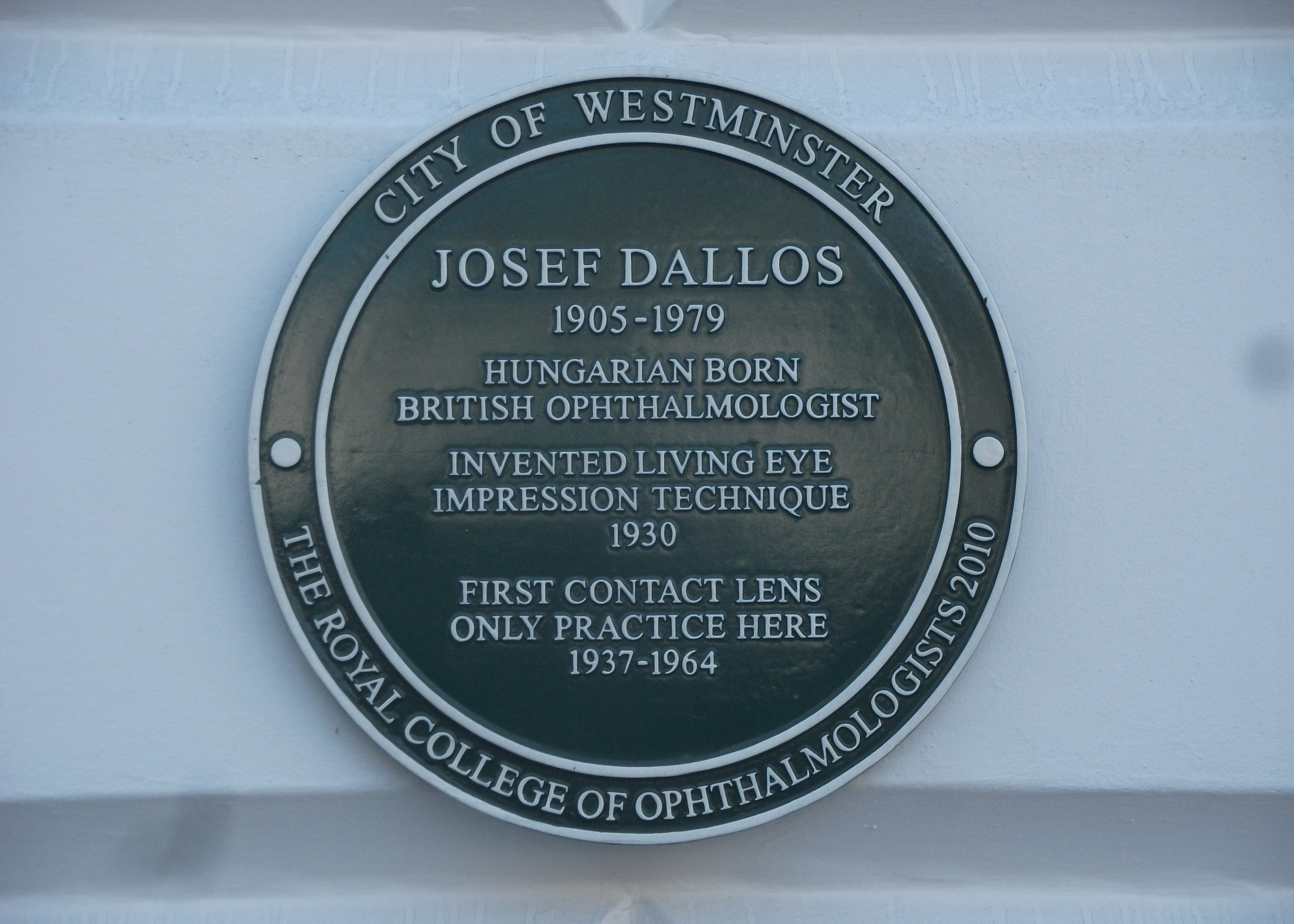 Josef Dallos plaque in London, 18 Cavendish Square